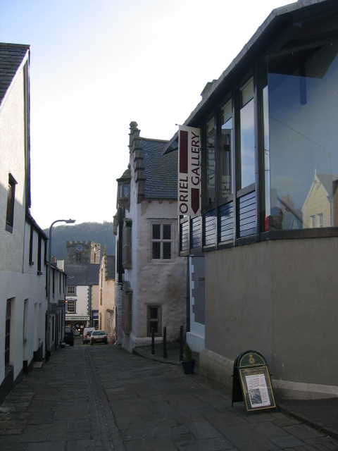 Royal Cambrian Academy art gallery The Royal Cambrian Academy has been developing for 125 years becoming 'Royal' in 1882 by decree of Queen Victoria. They obtained the lease of historic Plas Mawr in 1885, and then in 1994 moved to this purpose built gallery in Crown Lane, close to Plas Mawr. For more information about their exhibitions and the history of the academy